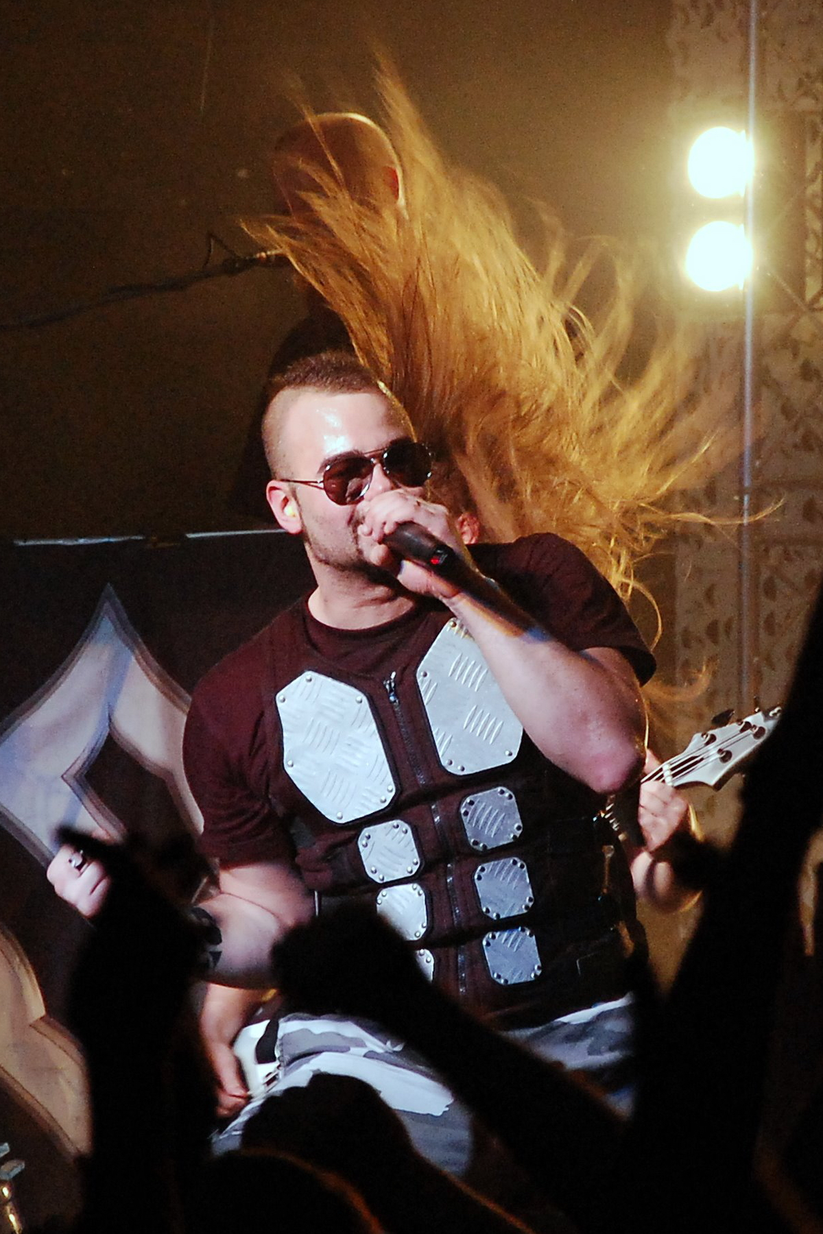 Joakim Broden on stage in Kraków, Poland, performing with Swedish power metal band Sabaton.